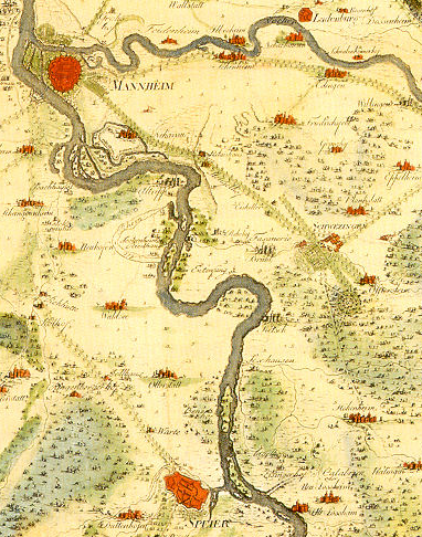 Old Rhine between Mannheim and Speyer. Koller in Brühl (Baden)